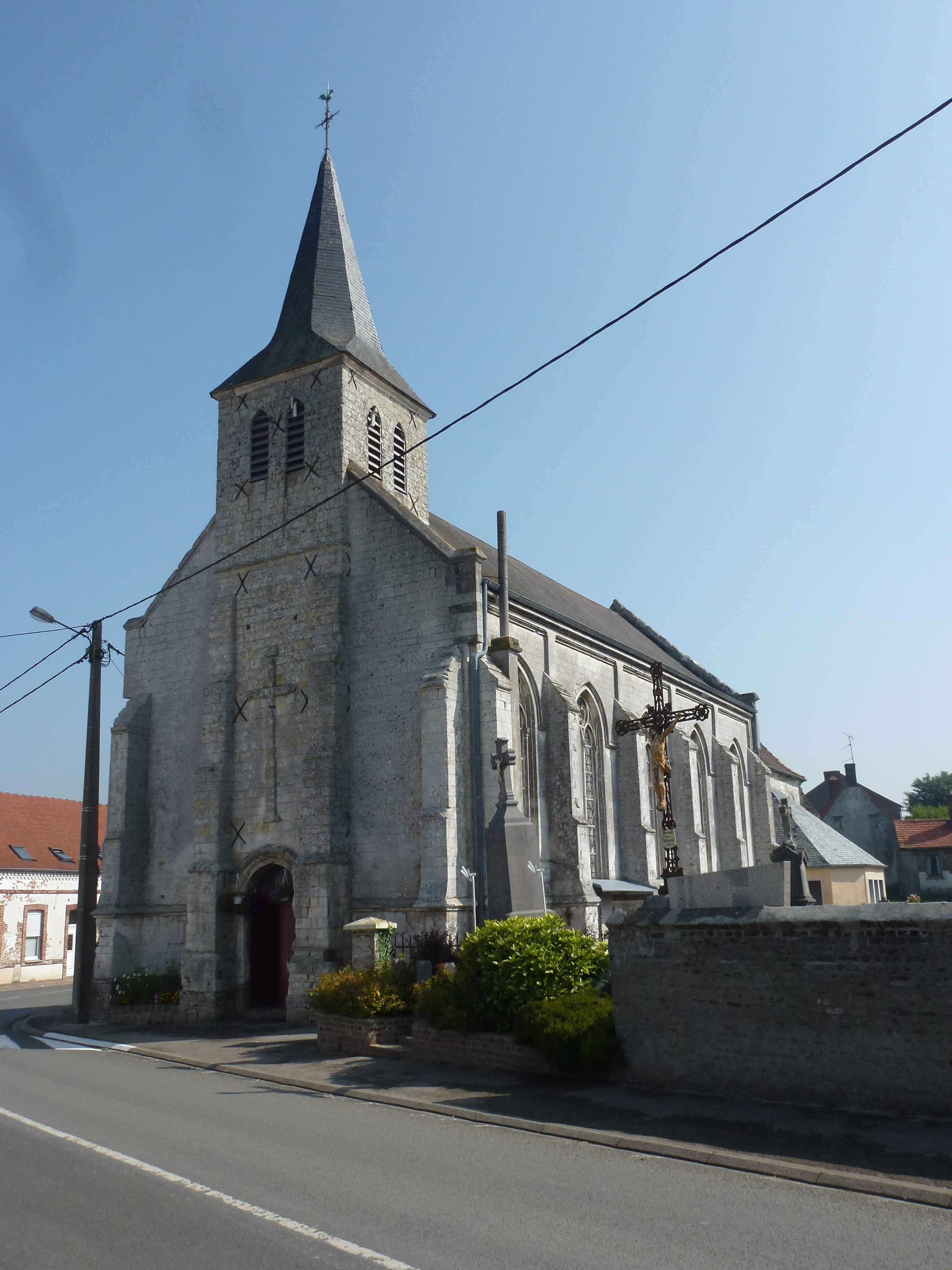 Bonningues-lès-Ardres (Pas-de-Calais) église, extérieur